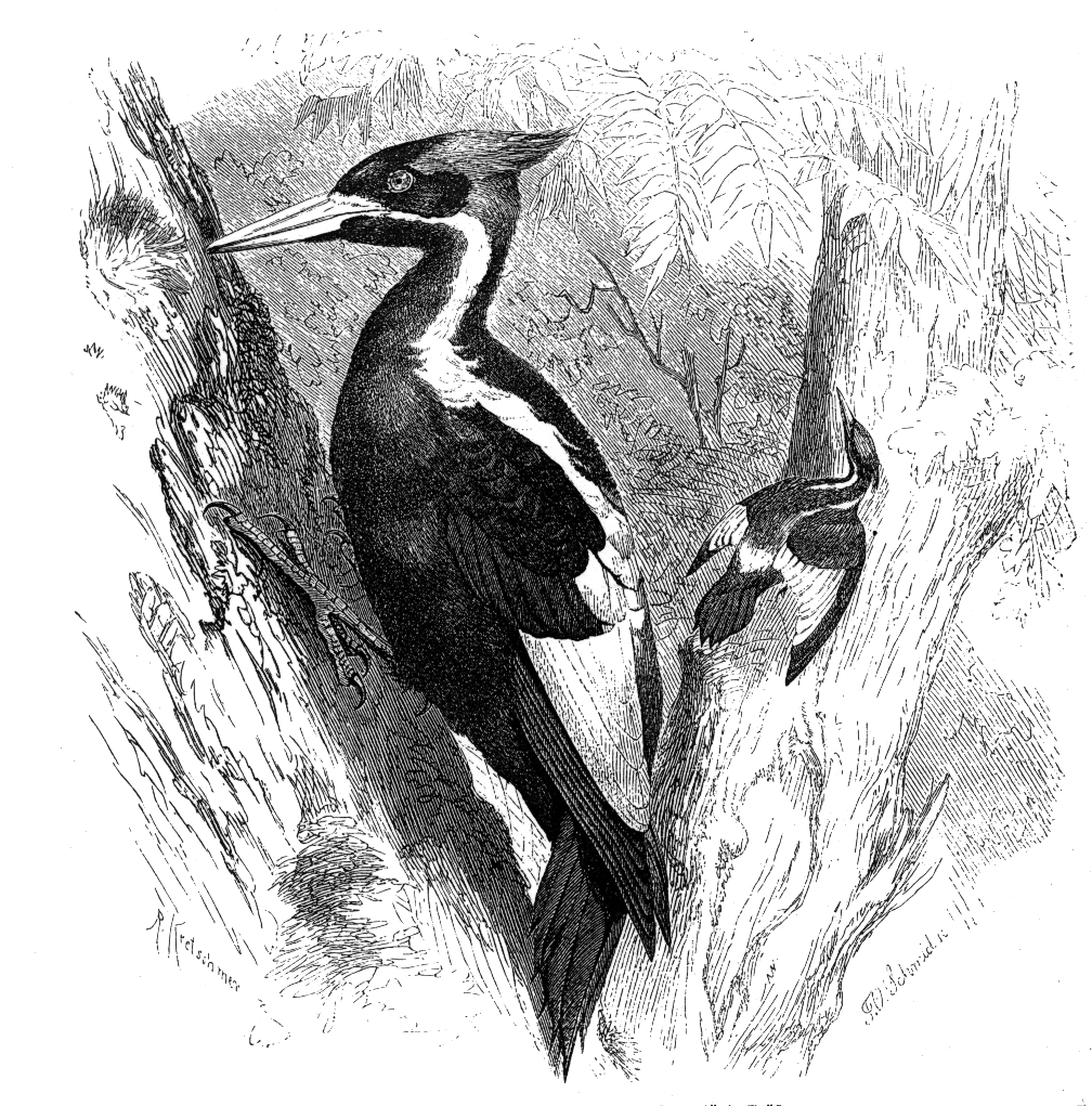 Ivory-billed Woodpecker, Campephilus principalis, engraving/etching